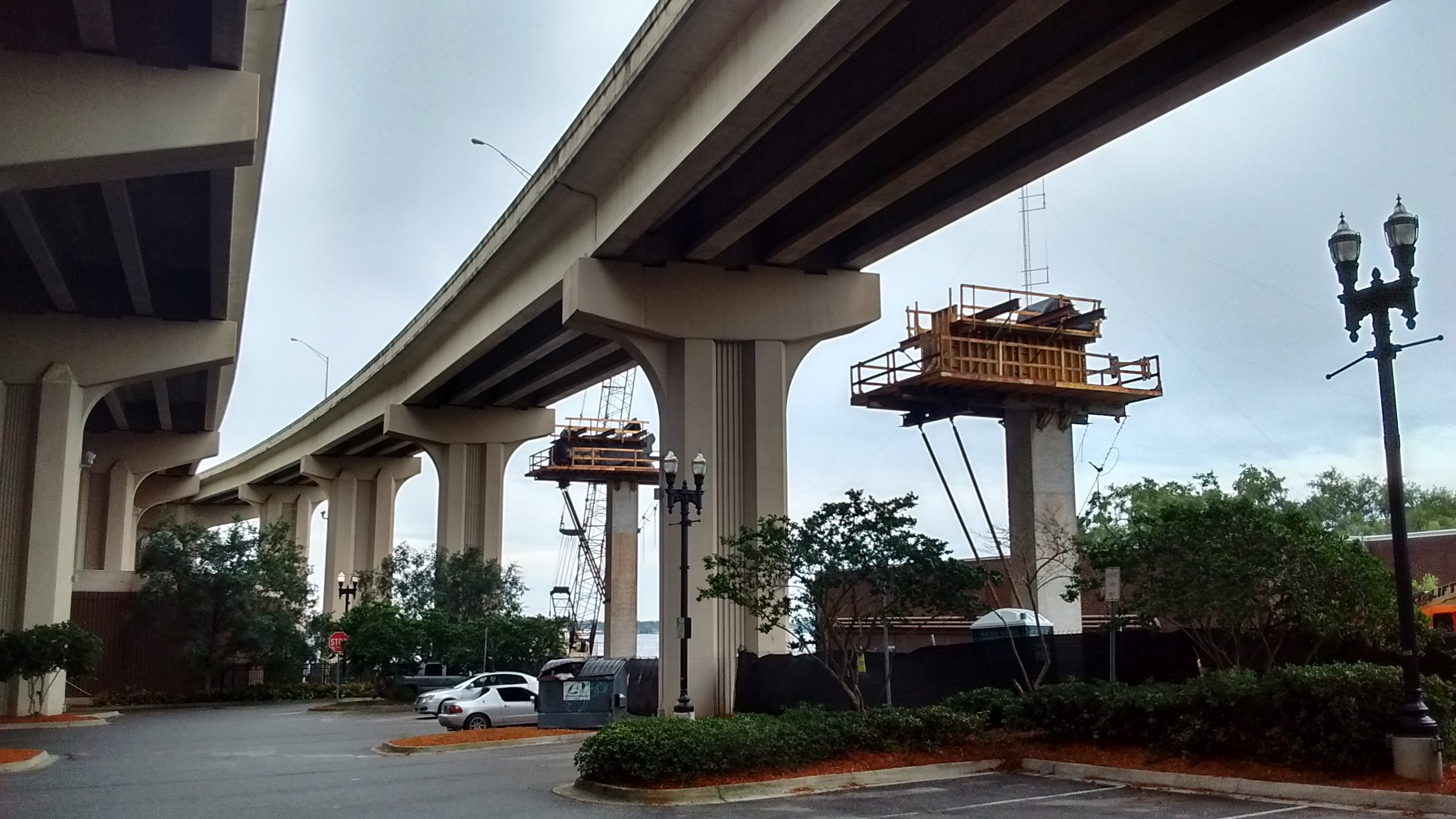 Construction of Concrete bridge supports for the Fuller-Warren Shared Use Path. Also shown is the existing southbound on-ramp, and bridge.